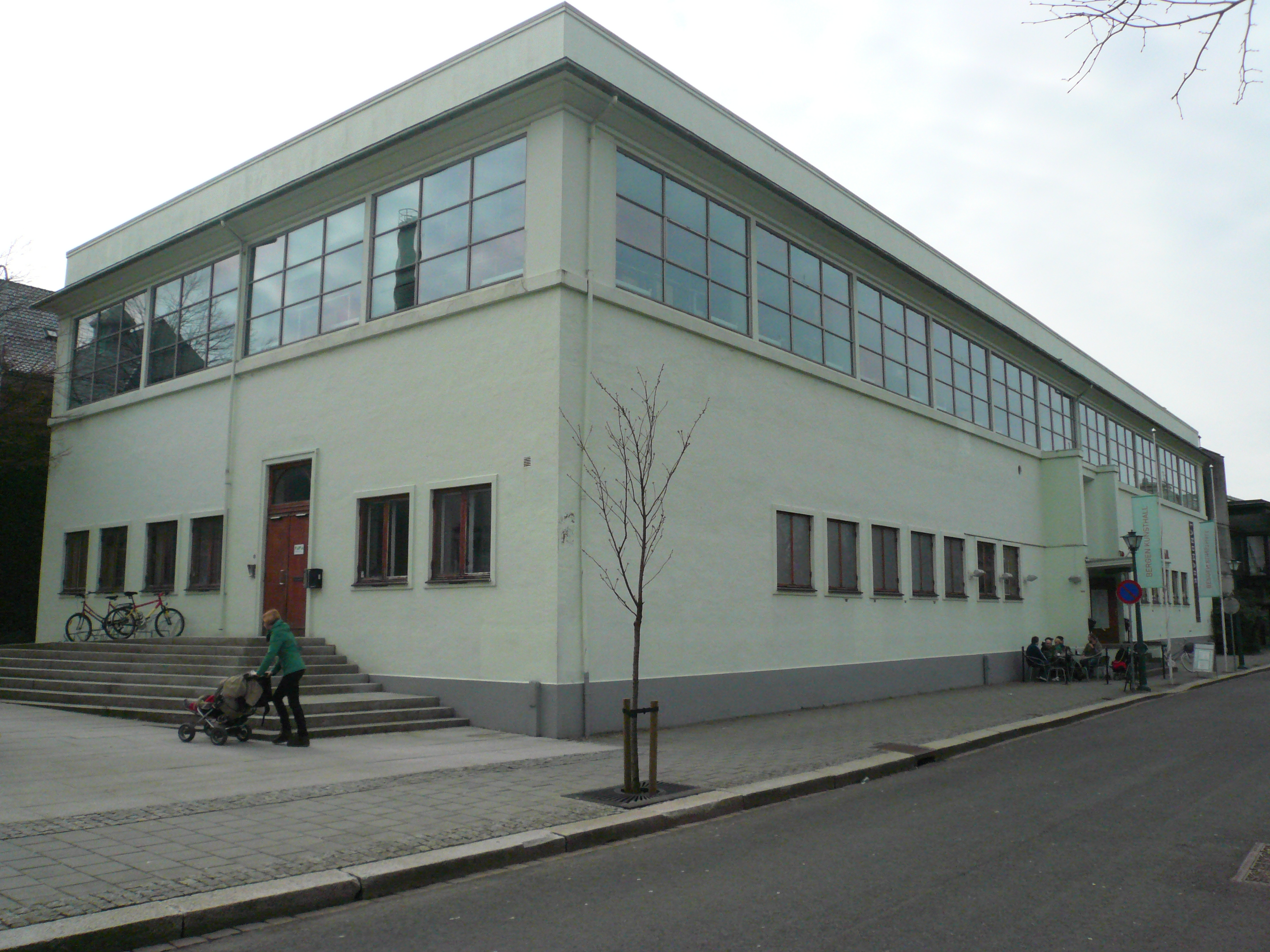 Bergen Kunsthall, by Ole Landmark (1934-1935)